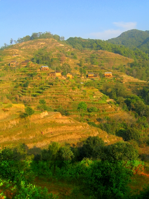 Crops and houses in Nagarkot, Nepal